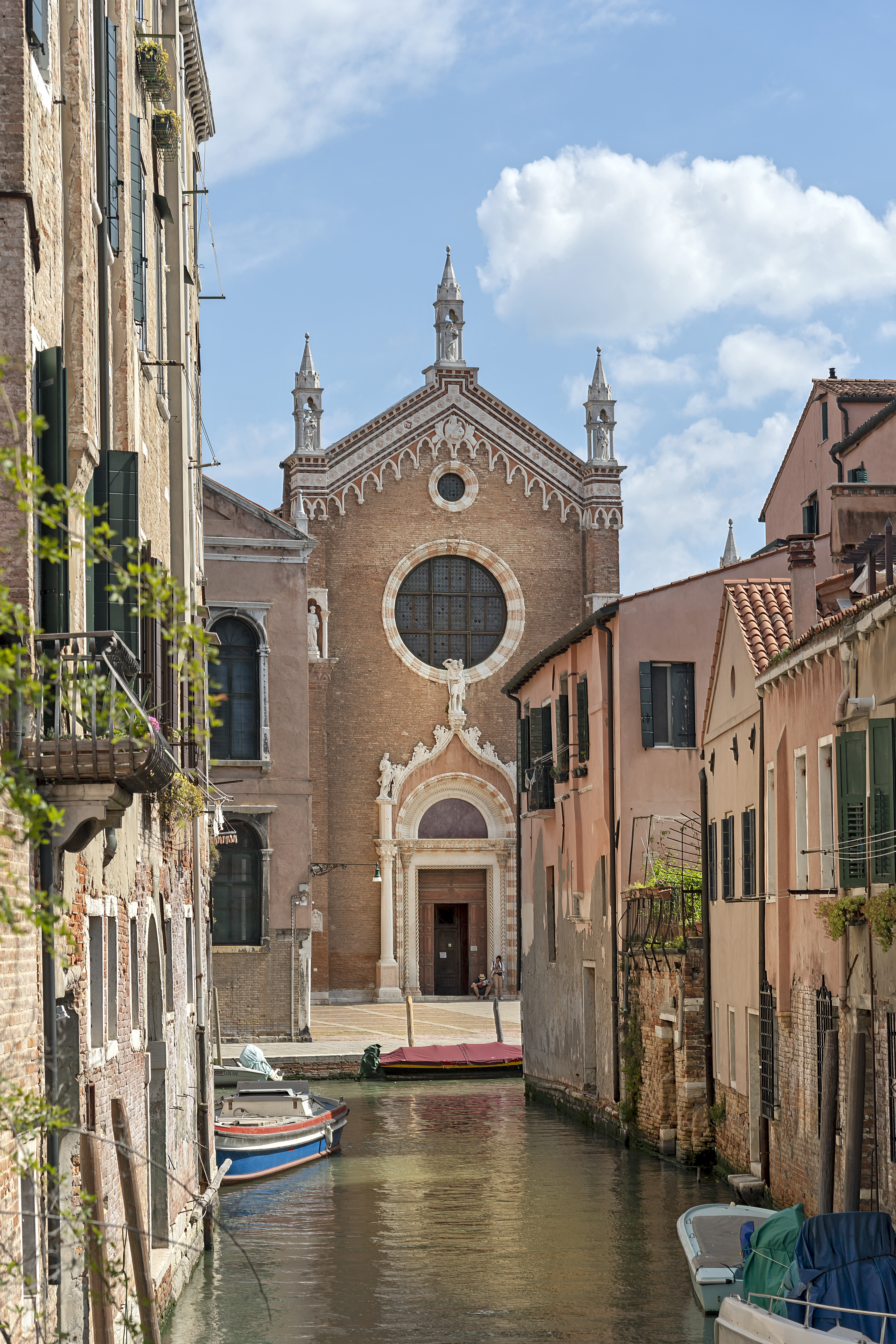 Rio Brazzo to Venice - viewed of Brazzo ponte to the church of Madonna dell'Orto